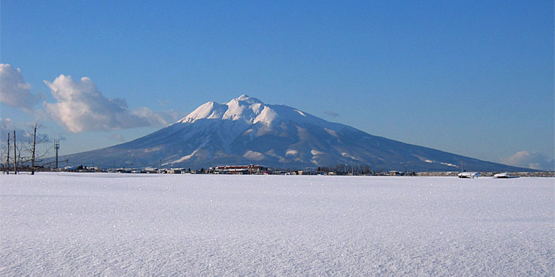 Mount Iwaki as seen from the ESE in Aomori Preefecture, Japan. Shot at nearby Matsukitai Station in Hirosaki.